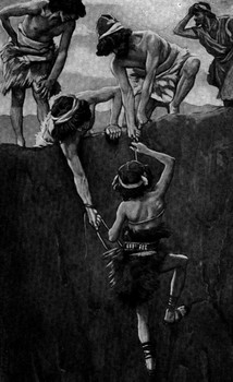 Joseph's Brothers Raise Him from the Pit in Order To Sell Him, by James Jacques Joseph Tissot (French, 1836-1902)